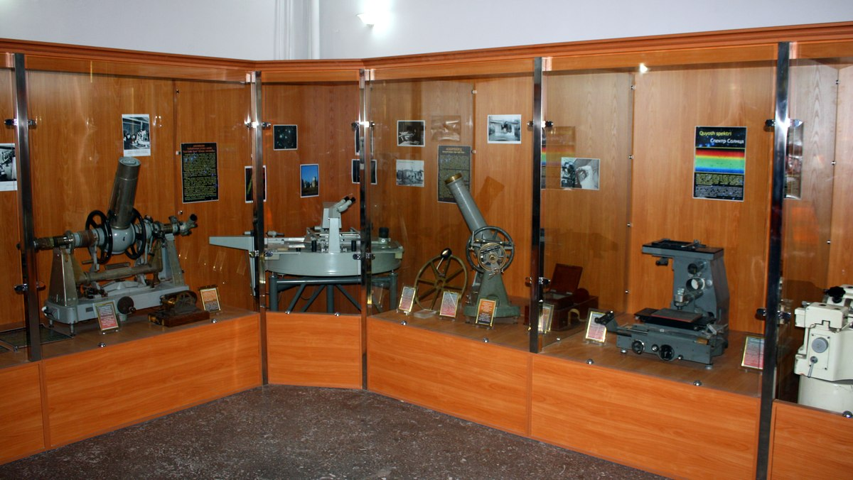 Tashkent. Photo of stands of a museum in foyer of Institute of Astronomy on 1 floor